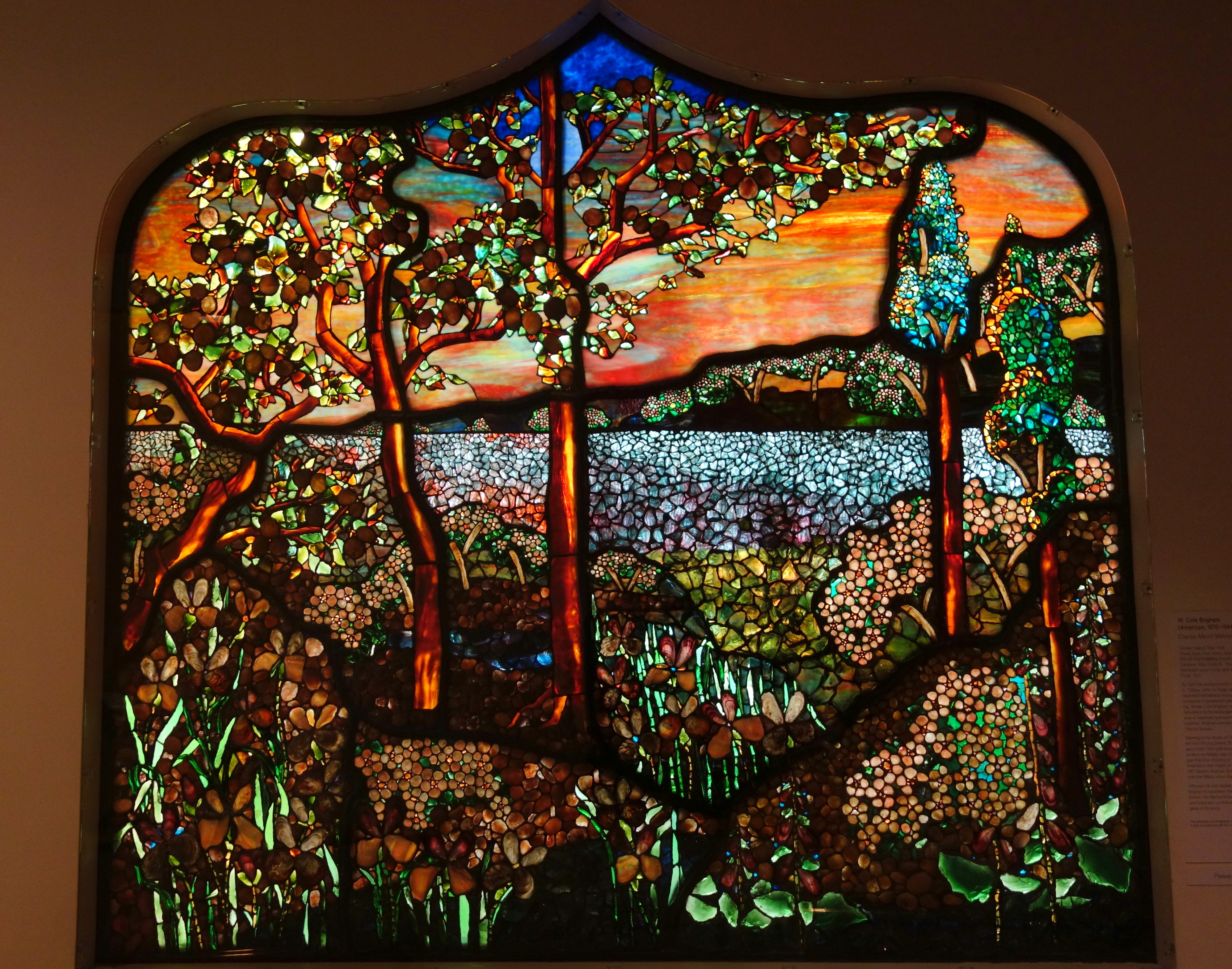 Exhibit in the Brooklyn Museum - Brooklyn, New York, USA. This artwork is in the public domain because the artist died more than 70 years ago.